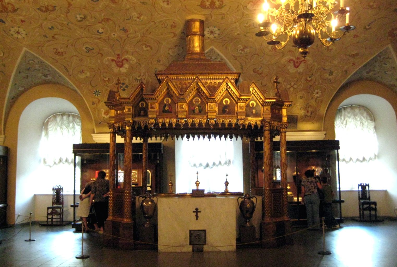 Stove for the preparation of Chrism, Patriarchal Residence (Moscow Kremlin museums exhibitions. Moscow, Russia).